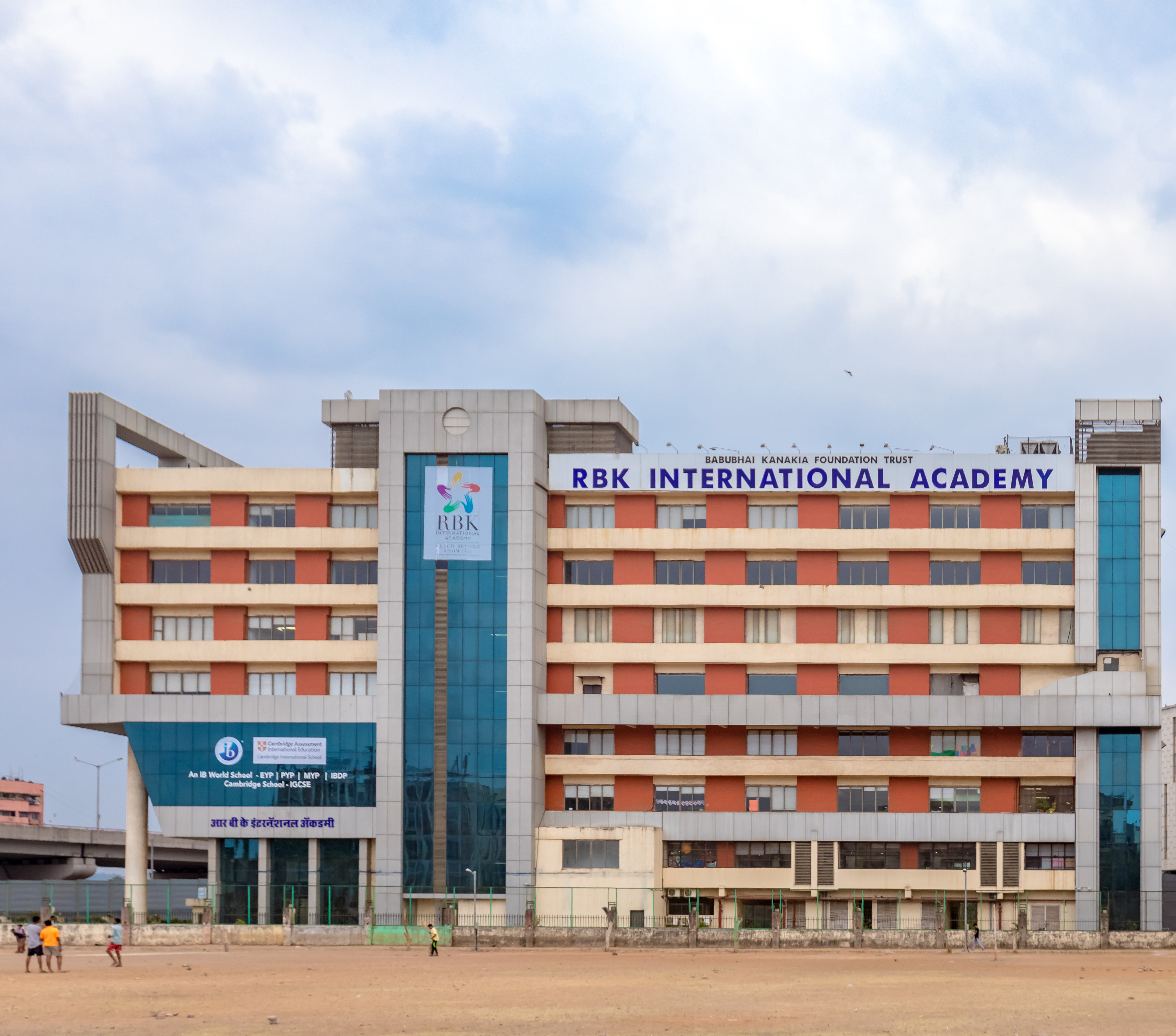 School Building